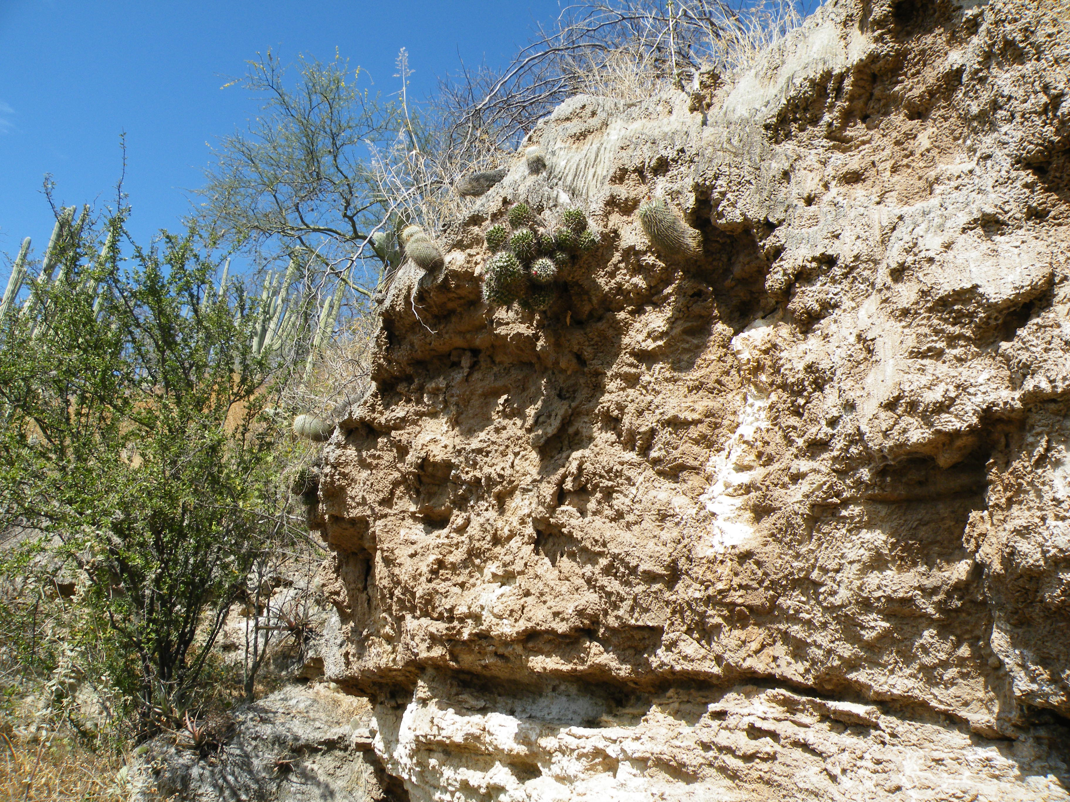 San Juan De Los Cues, Oaxaca 2.15km North West